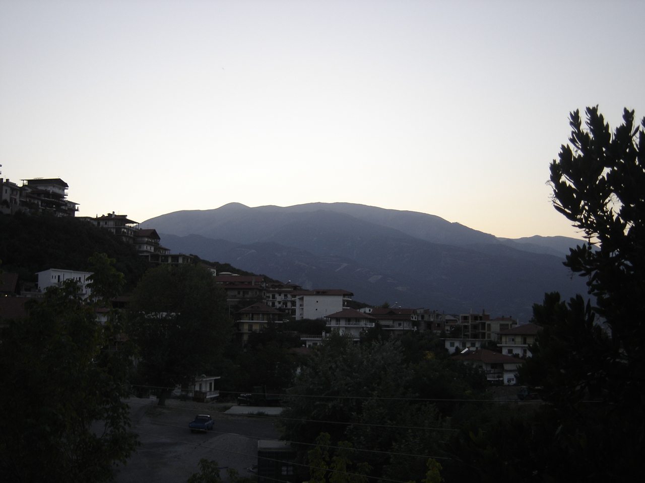 View of Neos Panteleimon, with Mount Olympus visible.